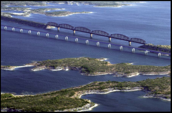 The Southern Pacific Amistad Lake Bridge and US 90 Bridge as they cross over Amistad Reservoir in Amistad National Recreation Area in Val Verde County, near Del Rio, Texas